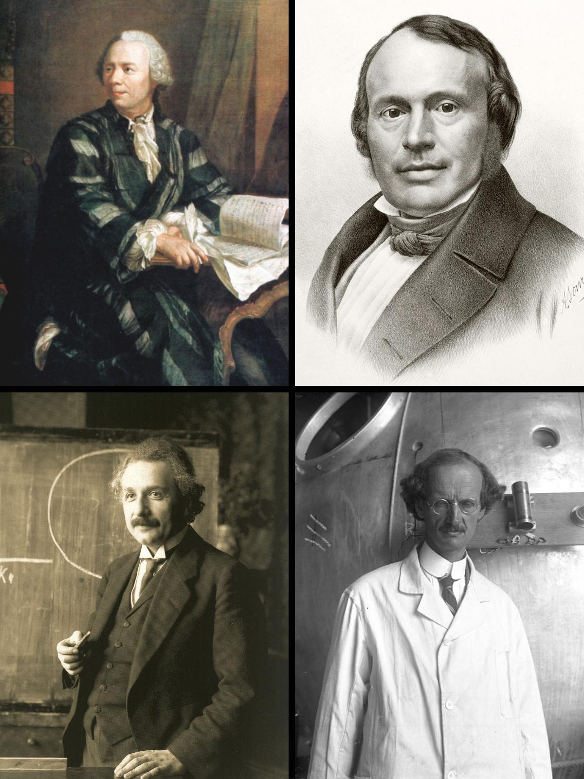 Famous Swiss scientists, for the article on Switzerland.